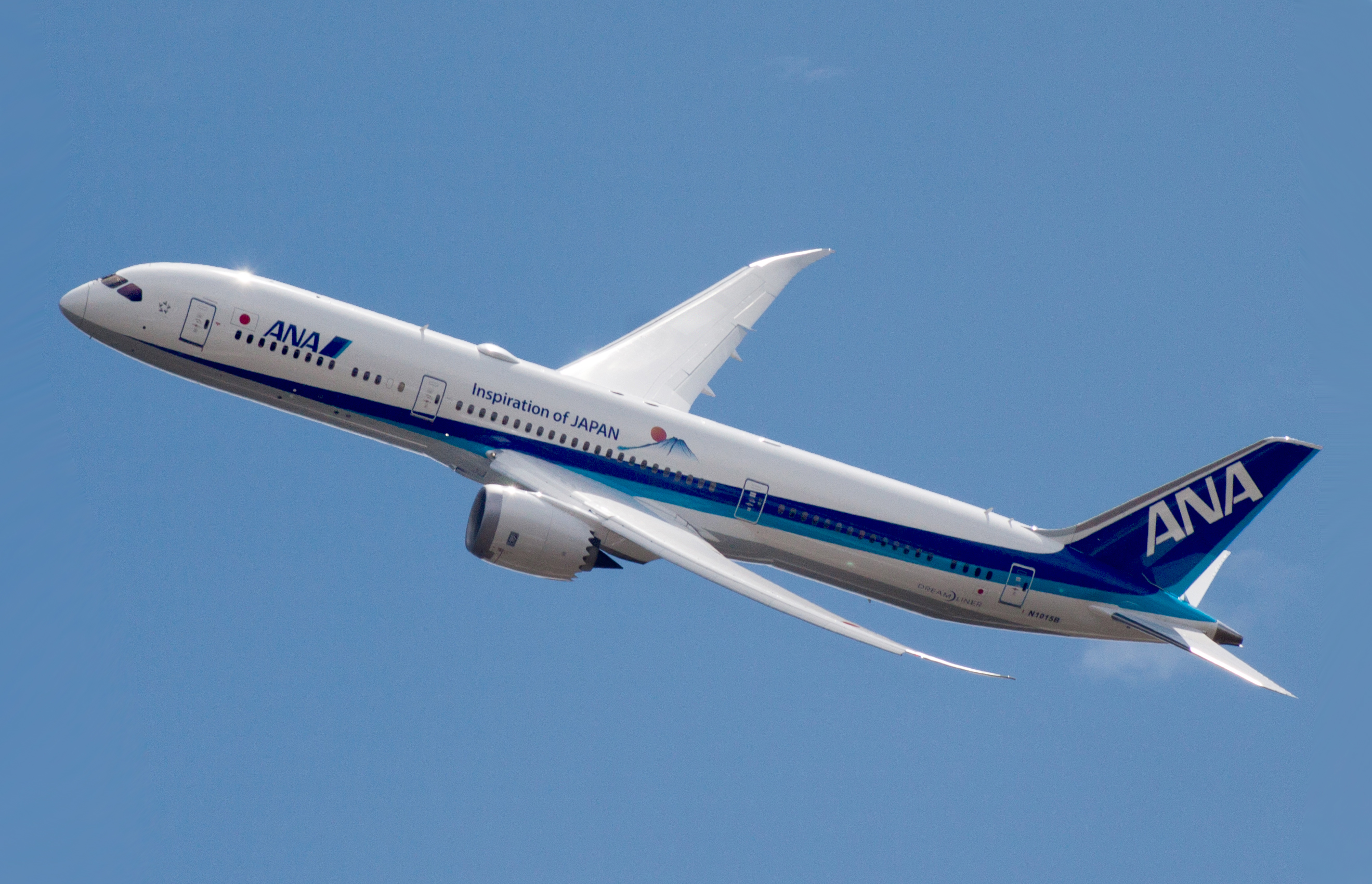 Taken from back garden validating for Farnborough Airshow